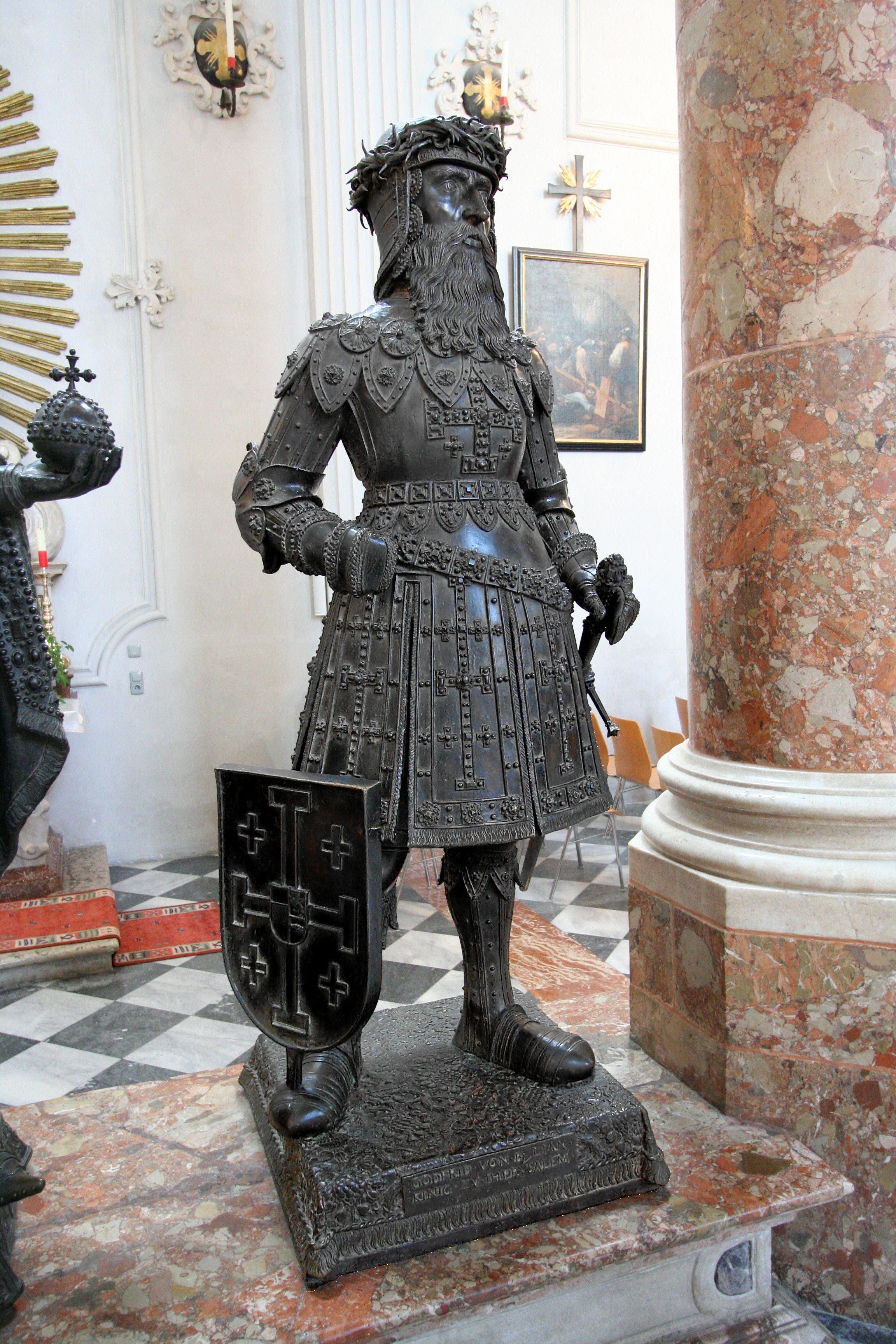 Bronze statue of Godfrey of Bouillon in the Hofkirche of Innsbruck.